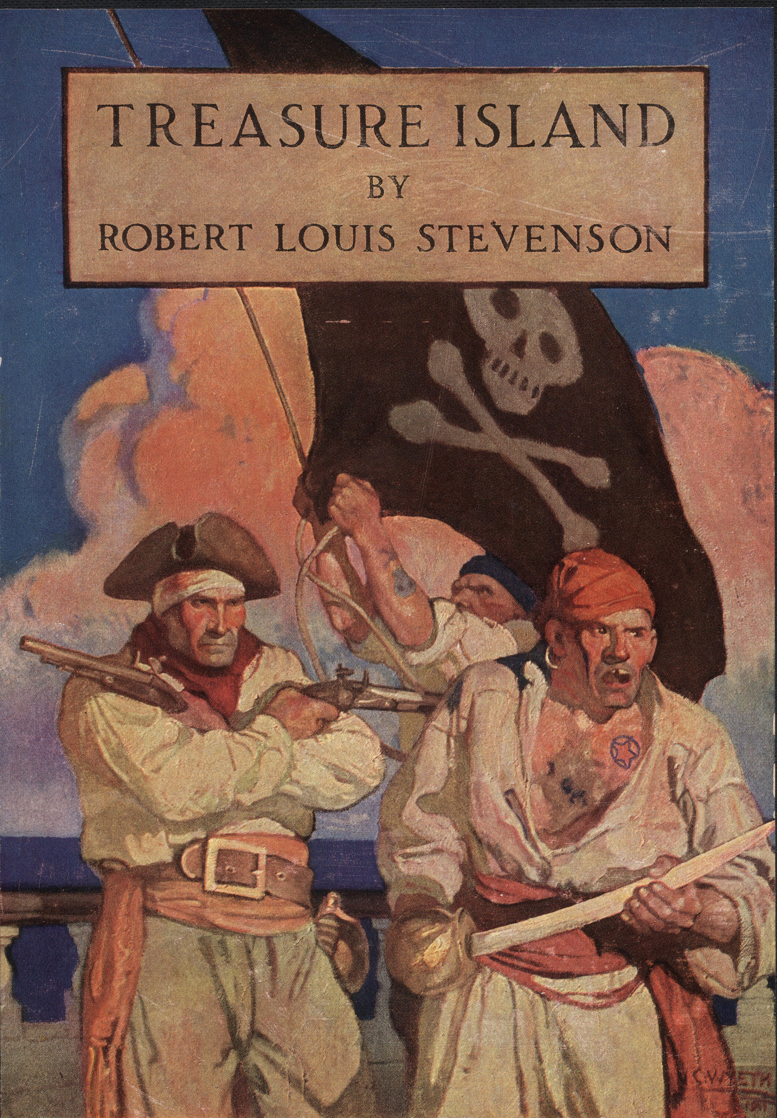 Treasure Island by Robert Louis Stevenson, Charles Scribner's Sons, 1911